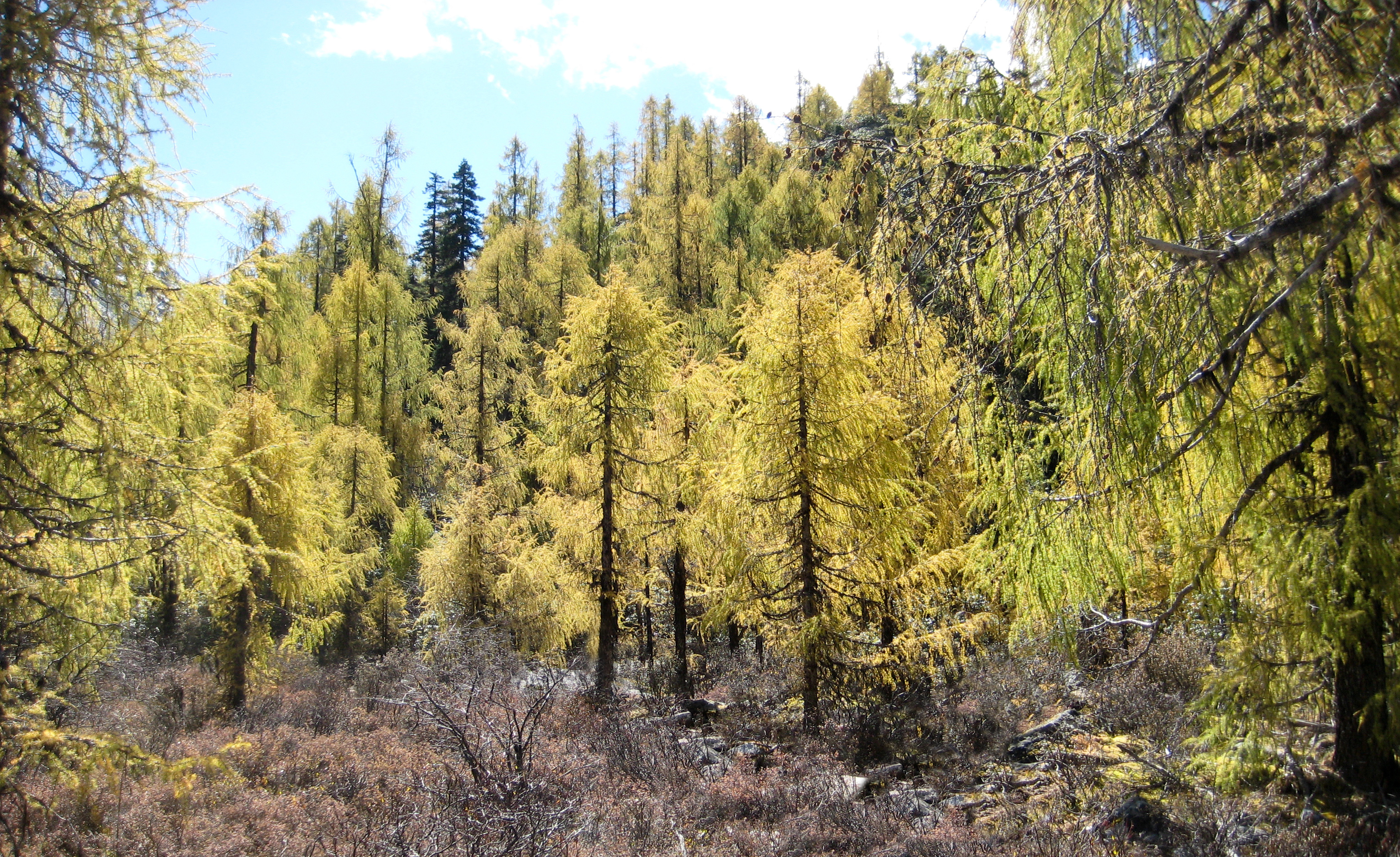 Larix potaninii forest. Huluhai, Sichuan - 葫芦海 四川.